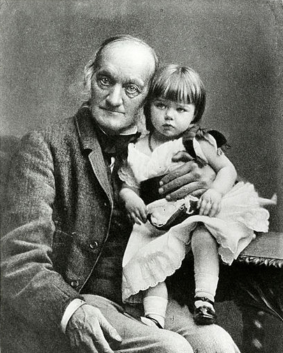 Richard Owen with his granddaughter. Richard Owen, British zoologist and palaeontologist, c1890s. Portrait of Owen (1804-1892), frontispiece from "The Life of Richard Owen ... With the scientific portions revised by C. D. Sherborn, also an Essay on Owen's position in Anatomical Science by the Right Hon. T. H. Huxley ..." by Richard Startin Owen. (London, 1894).